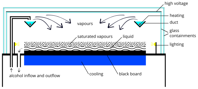 Diagram of a continuous operation cloud chamber. Alcohol (typically isopropanol) is evaporated by a heater in a duct in the upper part of the chamber. Vapour descents to the black refrigerated plate and saturates. Due to the temperature gradient a thin layer of oversaturated vapour is formed above the bottom plate. In this region, radiation particles can induce condensation and create cloud tracks.